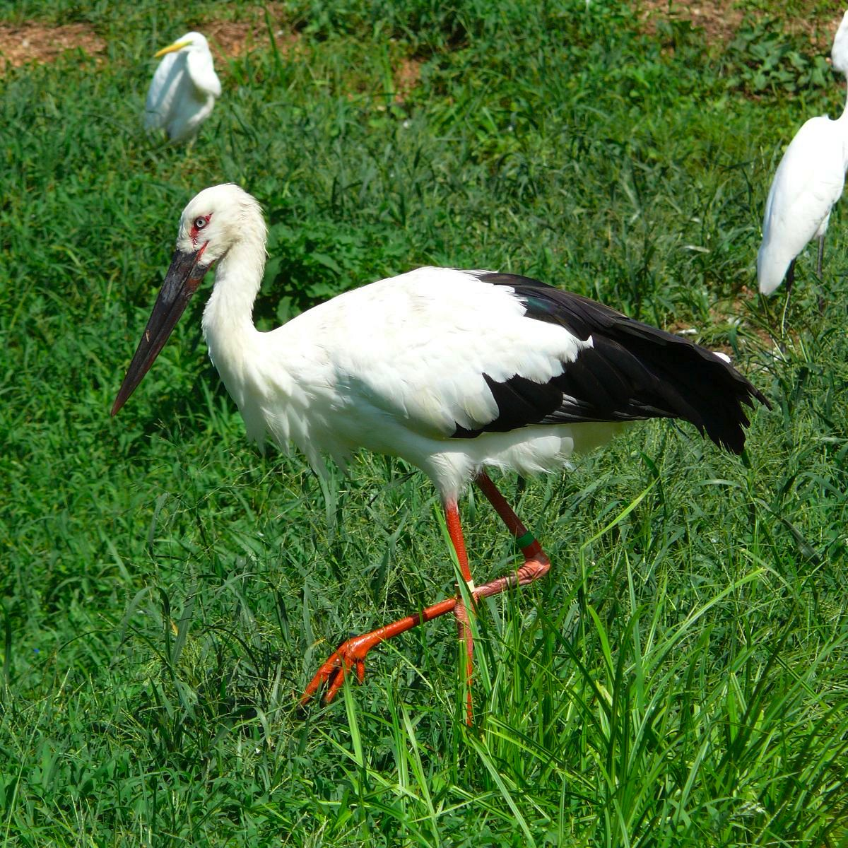 Oriental Stork